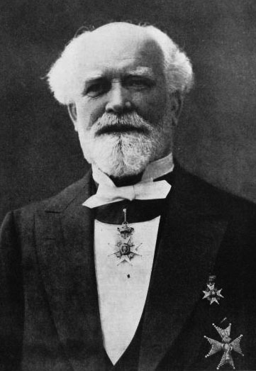 Swedish politician Pehr Lithander (1835-1913).